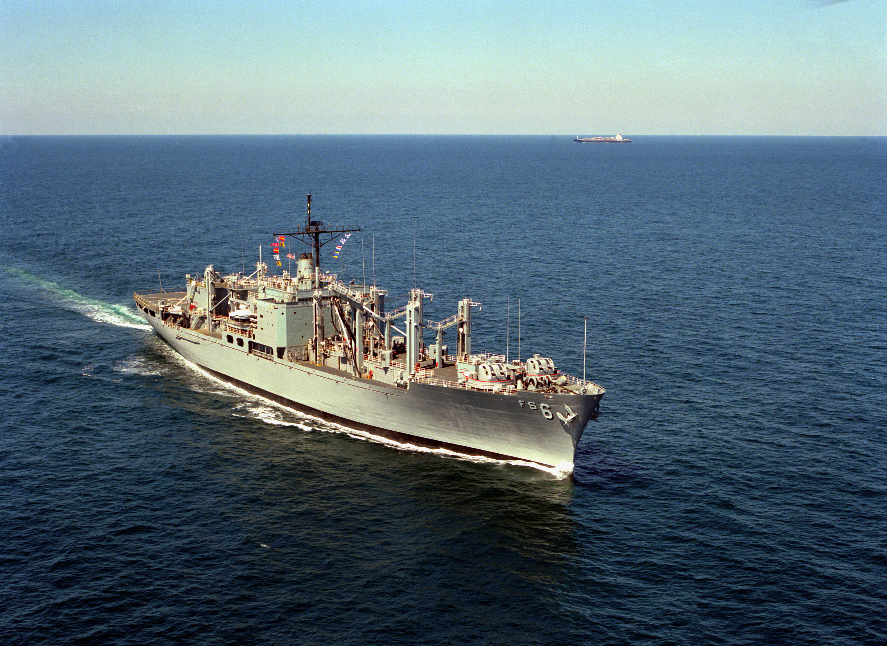 A starboard bow view of the U.S. Navy combat stores ship USS San Diego (AFS-6) underway off Cape Henry, Virginia (USA), on 22 August 1988.